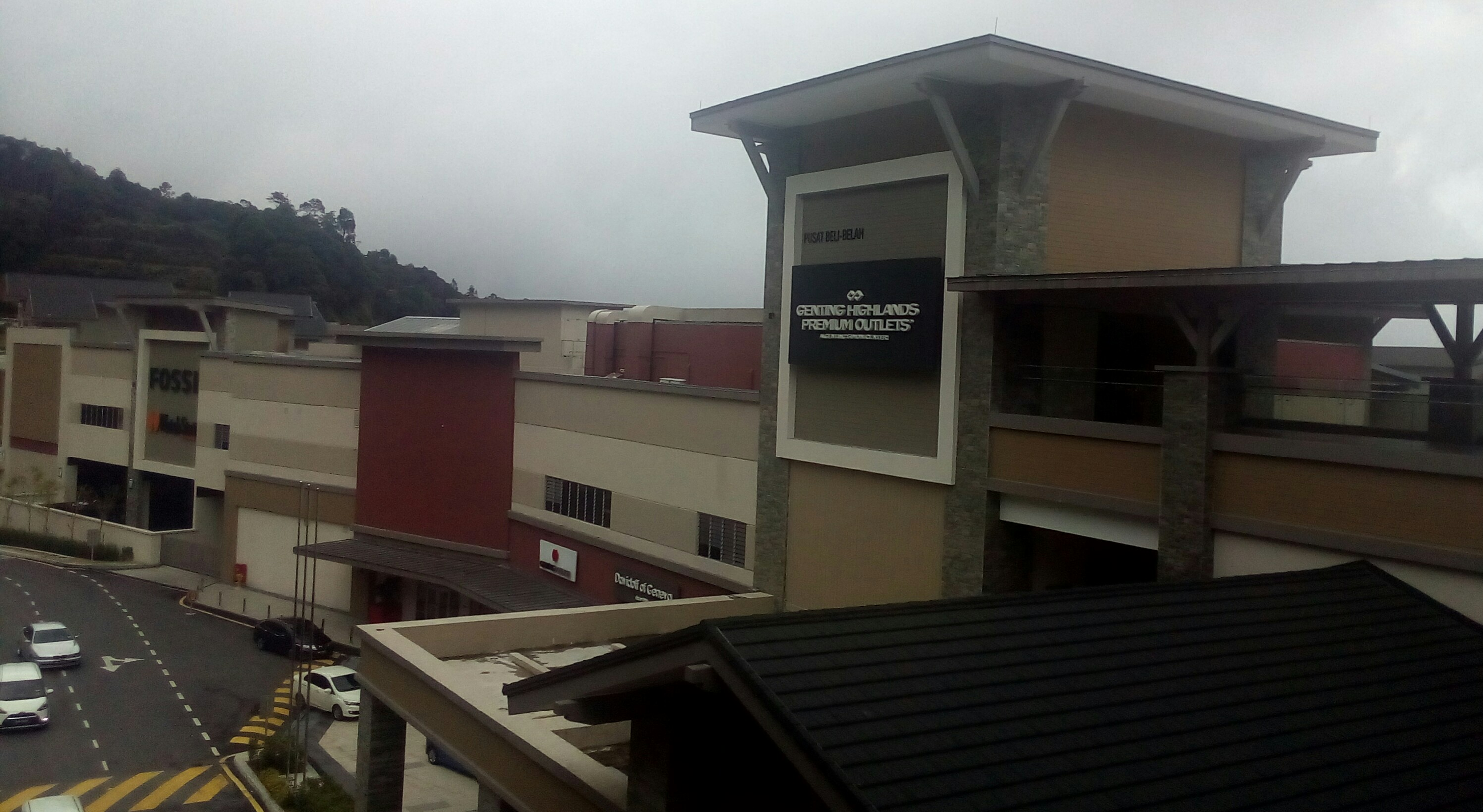 Genting Highlands Premium Outlets